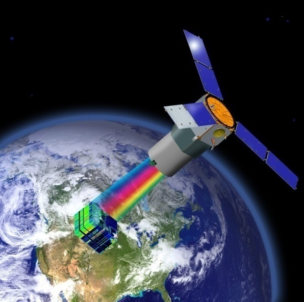 TacSat-3 hyperspectral imaging reconnaissance (artist's impression)